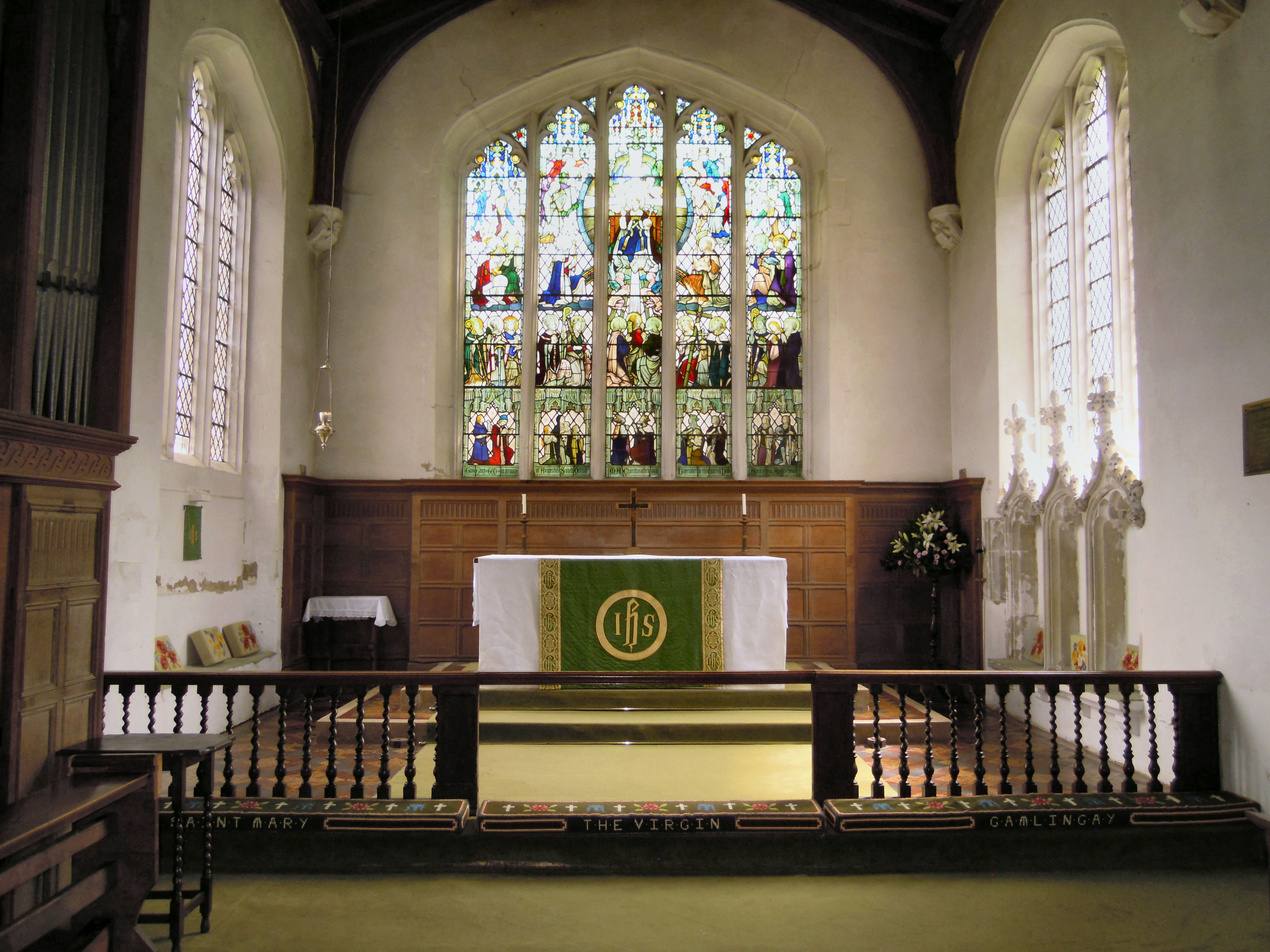 Two Sanctuary showing the high altar in the Church of St Mary the Virgin in Gamlingay in Cambridgeshire